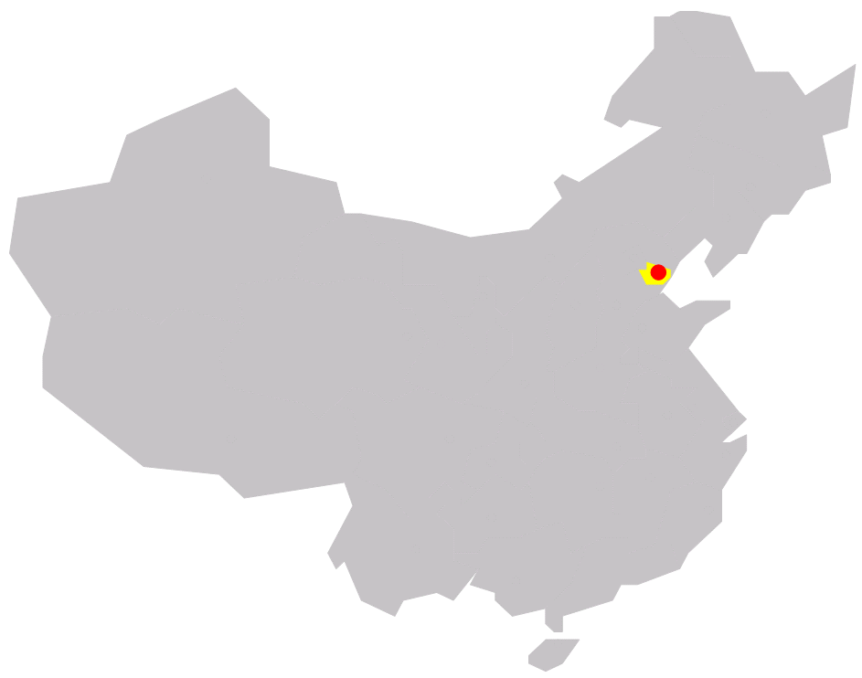 Description: position of Tianjin in China Source: own work Date: December 2005 Author: --Immanuel Giel 13:37, 16 December 2005 (UTC) Other versions: none